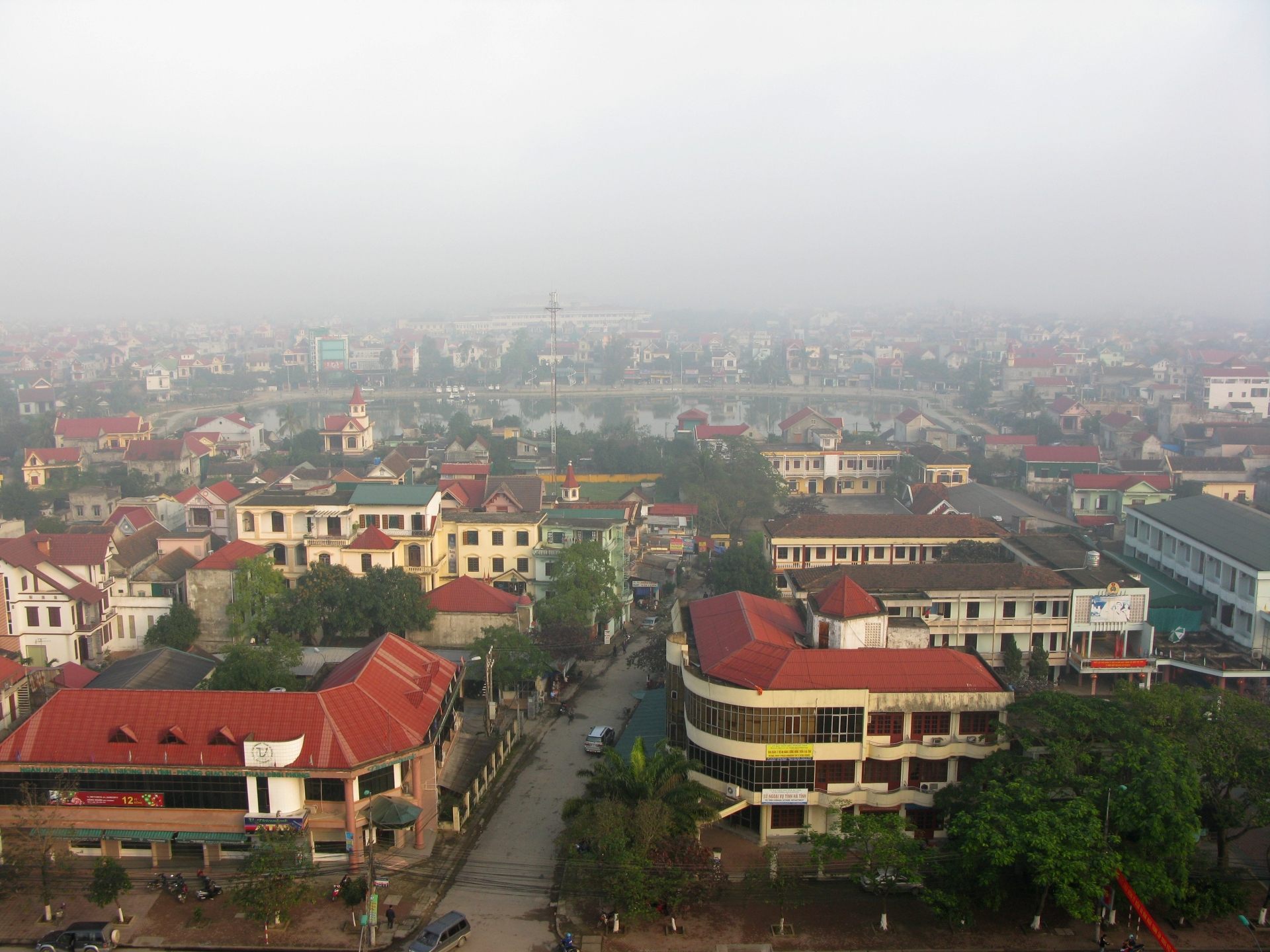 Hà Tĩnh City, Vietnam.